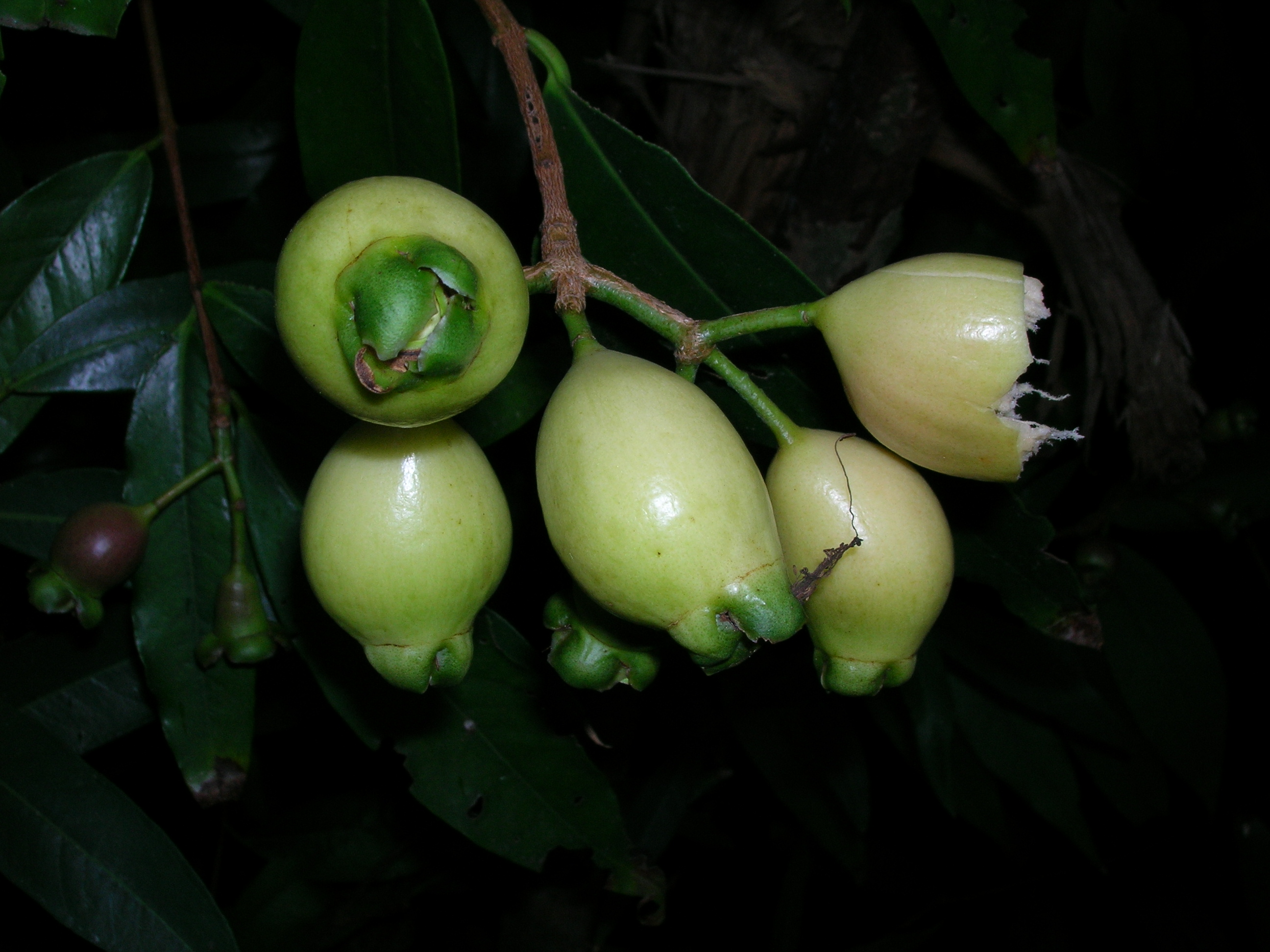 Syzygium jambos (fruit). Location: Maui, Makawao